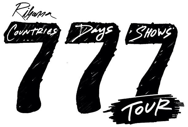 Logo of Rihanna's 777 Tour.